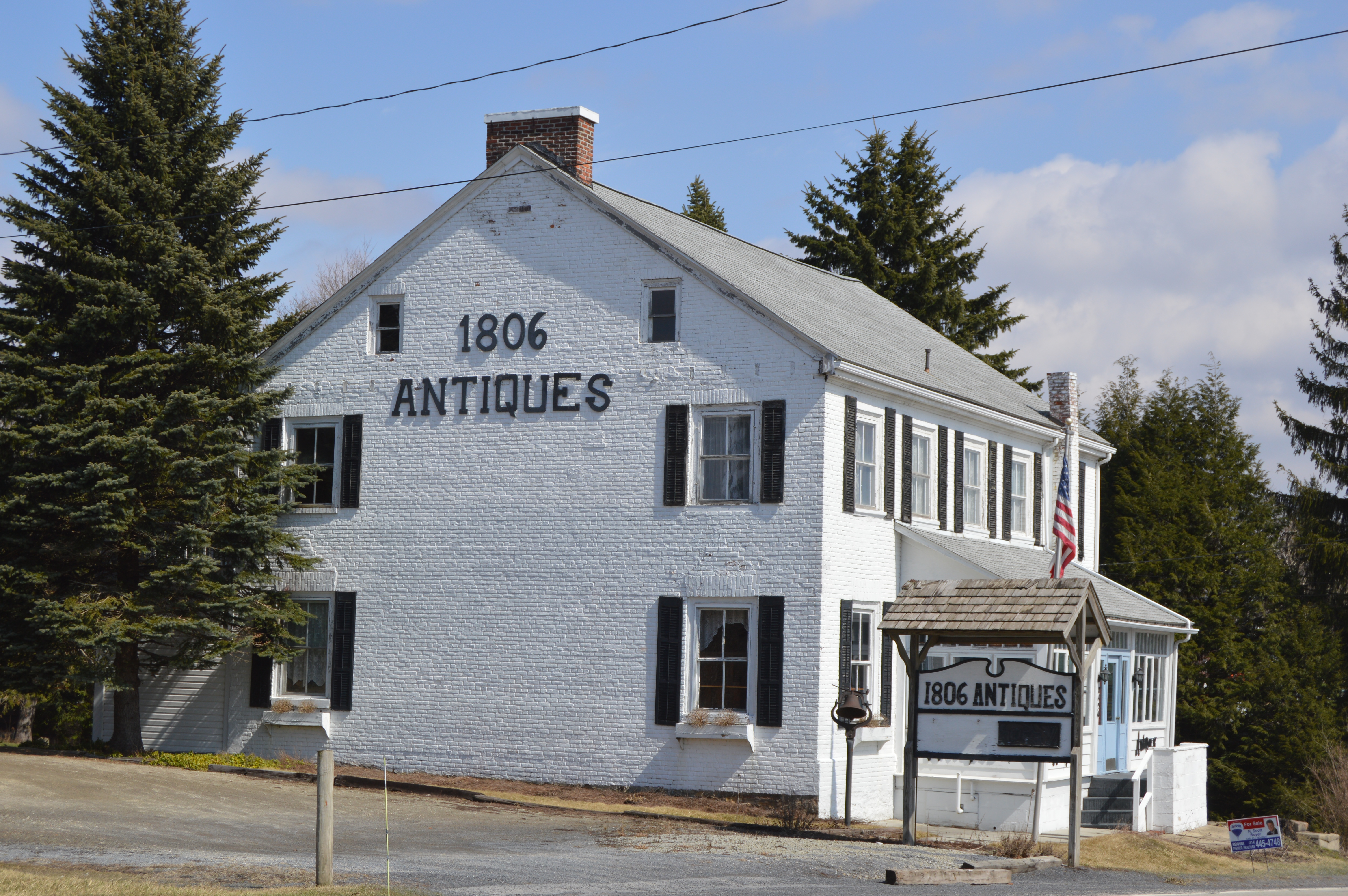 Western end and front of the John Dennison House, a former tavern on the Pennsylvania Wagon Road in Jennerstown, Pennsylvania, United States. Now the 1806 Antiques Shop located at 1454 W. U.S. Route 30, it was built in 1806.